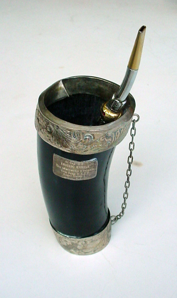 This is a "Guampa" that contains the Yerba Mate. Iced cold water mixed with medicinal herbs are poured on it; also used as an alternative medicine in Paraguay. This Guampa is made from cow horns and handcrafted silver. Author: Osvaldo Fernández Künzle